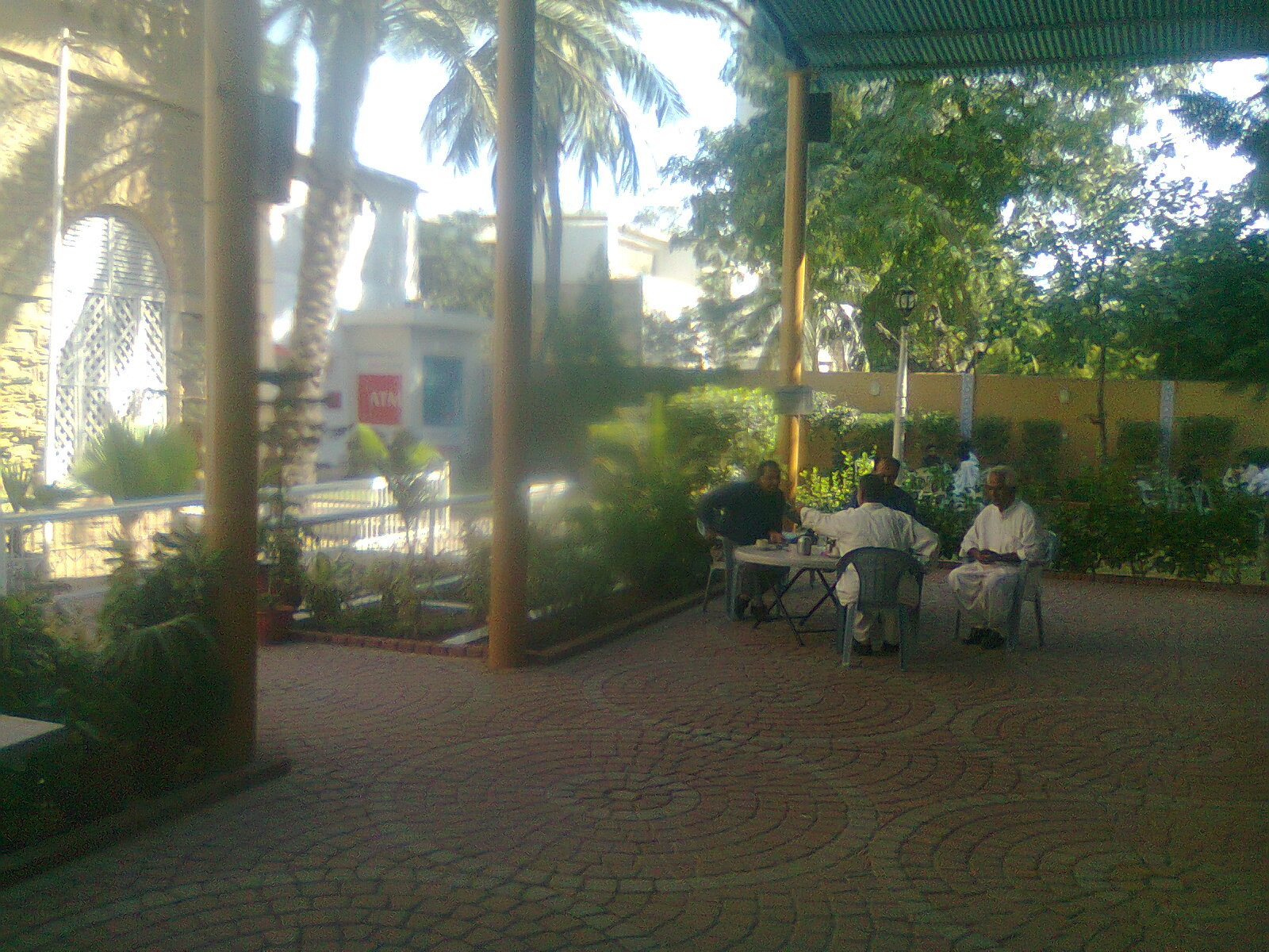 Karachi Press Club Lown